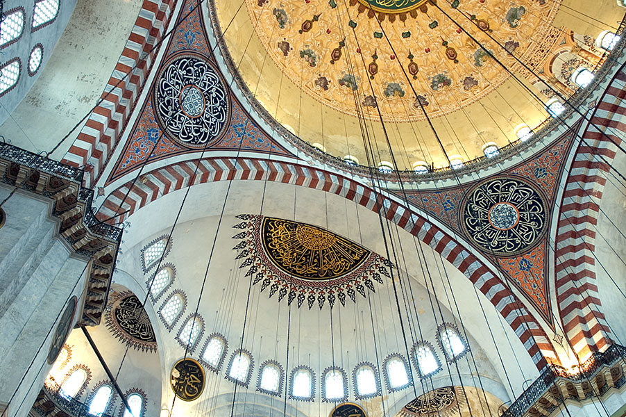 interior dome view of suleymaniye mosque